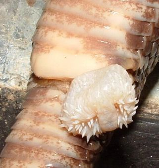 Photograph of everted rattlesnake hemipene. This is from a collection I used to curate.